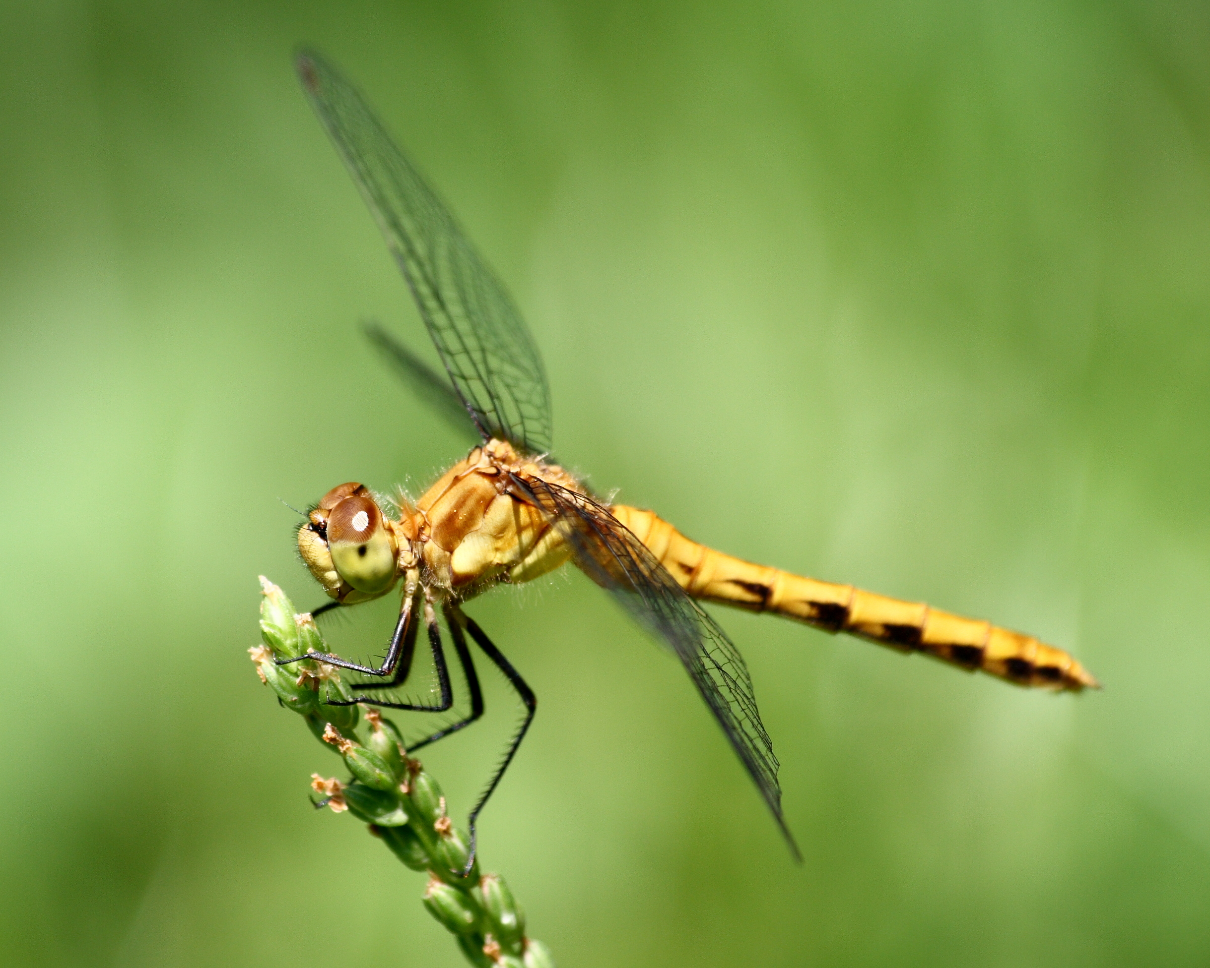 A female White-faced Meadowhawk (Sympetrum obtrusum) in central Connecticut